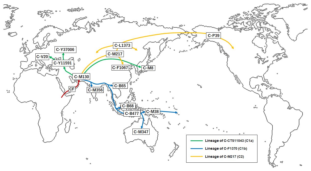 Haplogroup C (Y-DNA) migration